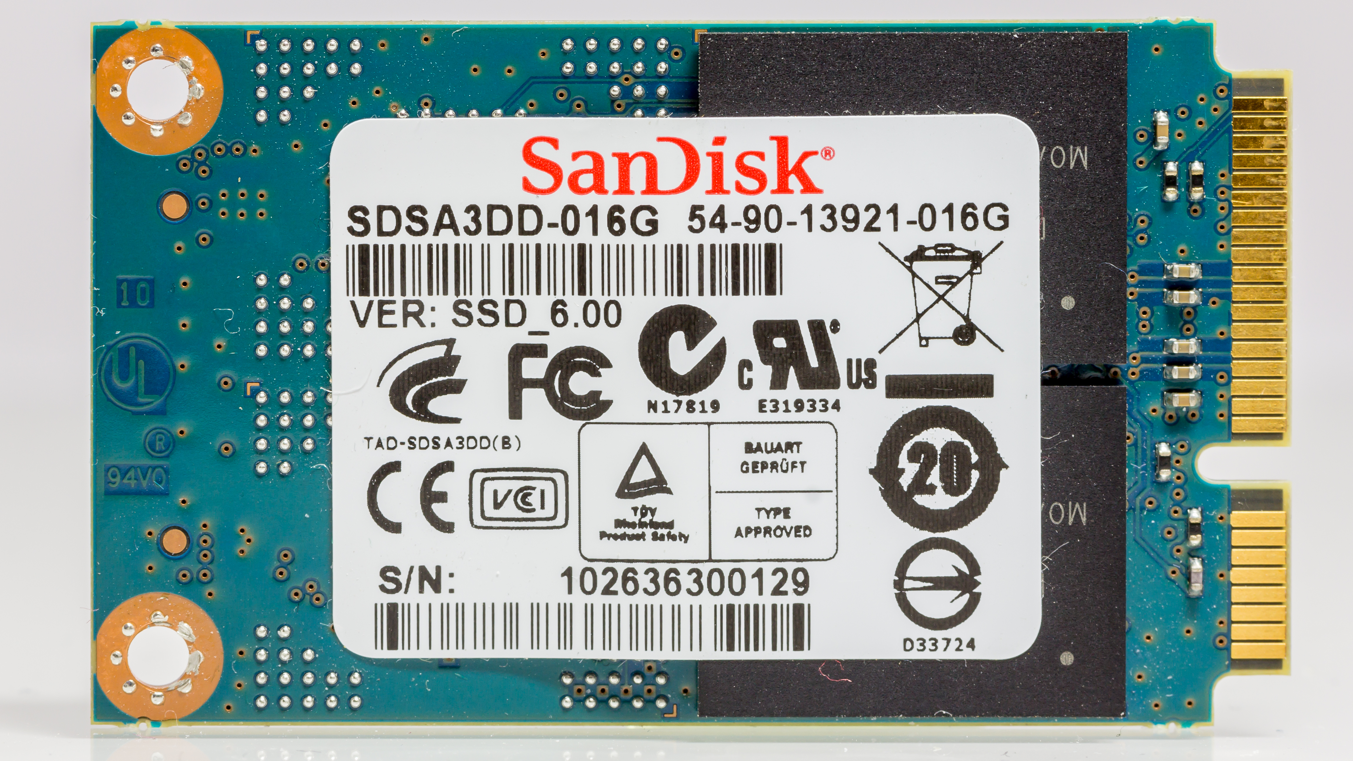 mSATA SSD 16 GB Sandisk - SDSA3DD-016G